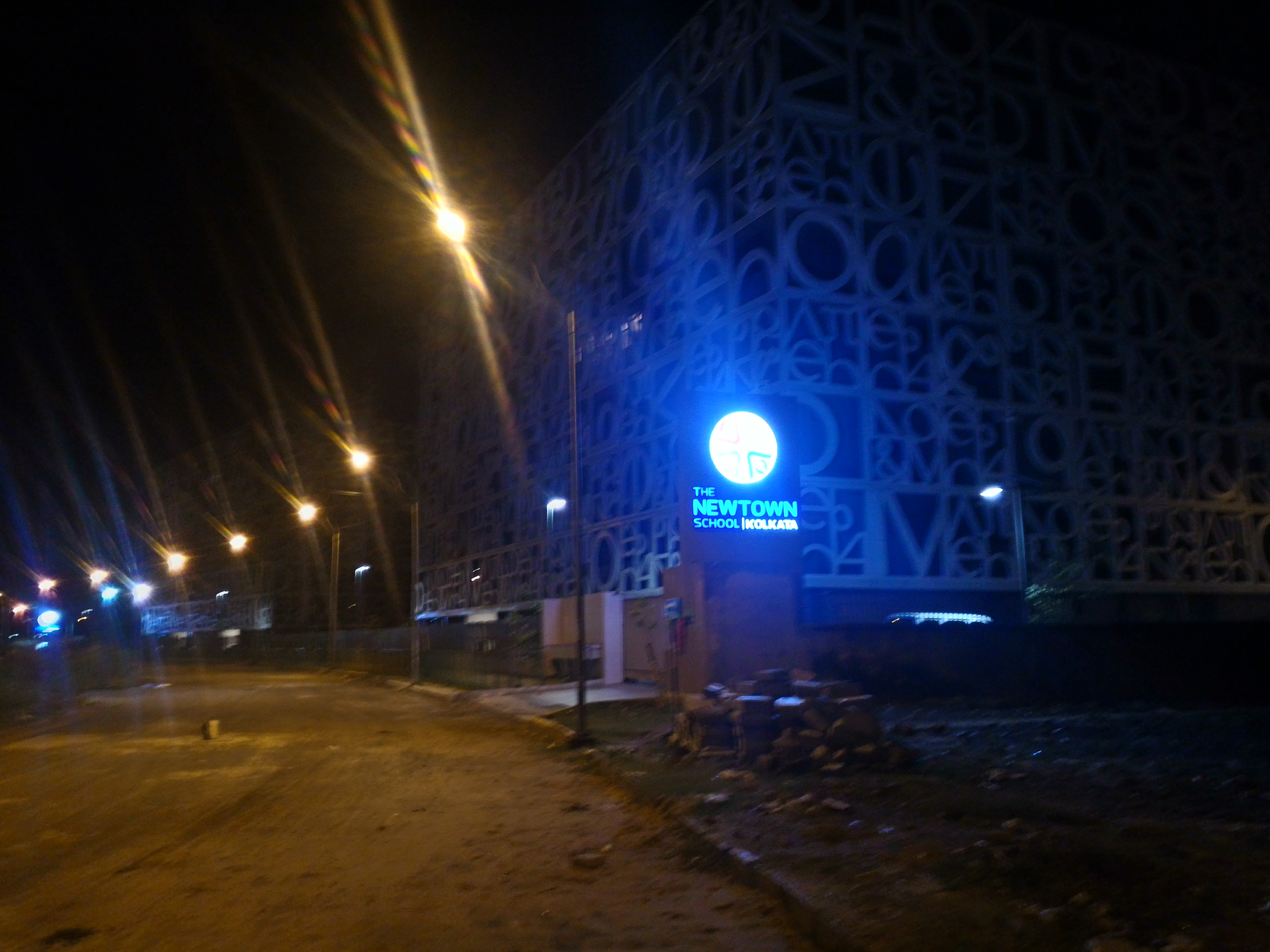 The New Town School, New Town, Rajarhat, Kolkata.